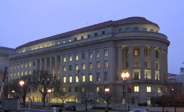 Washington, D.C. headquarters of the Federal Trade Commission.